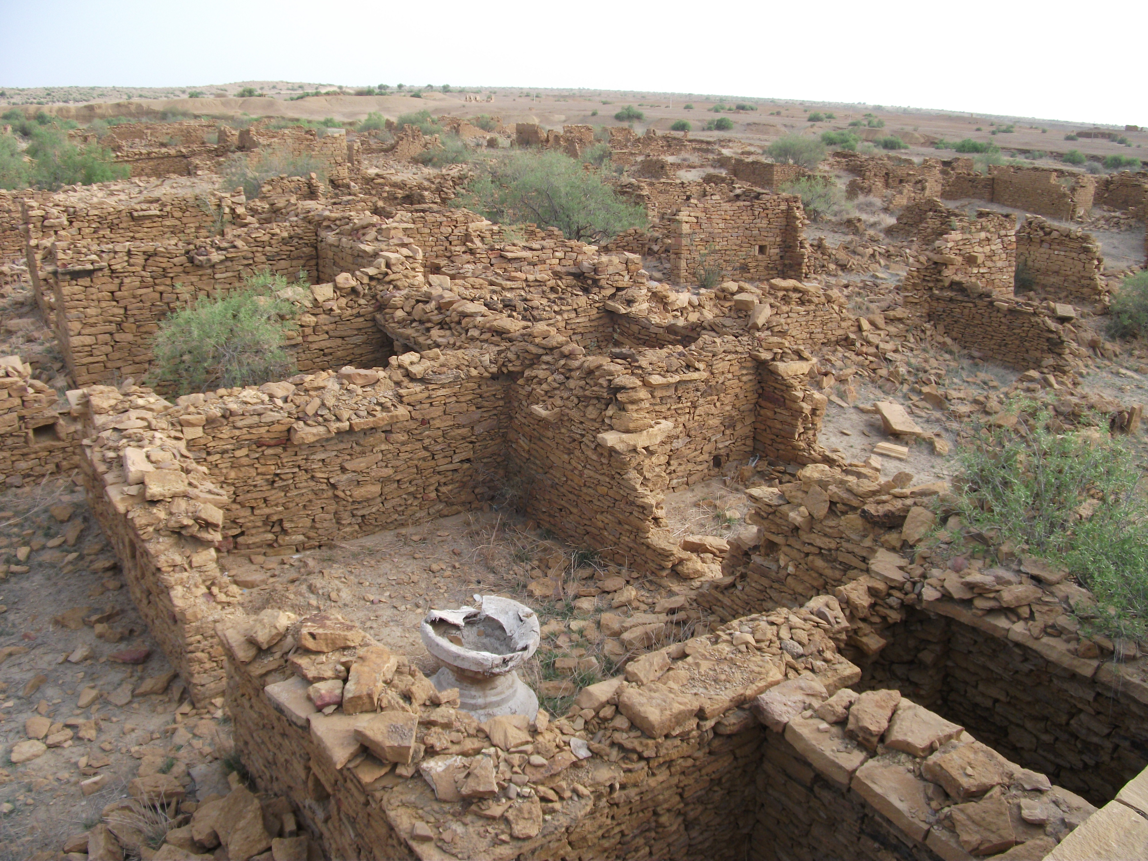 remains of houses in Kuldhara - The deserted village of Rajasthan